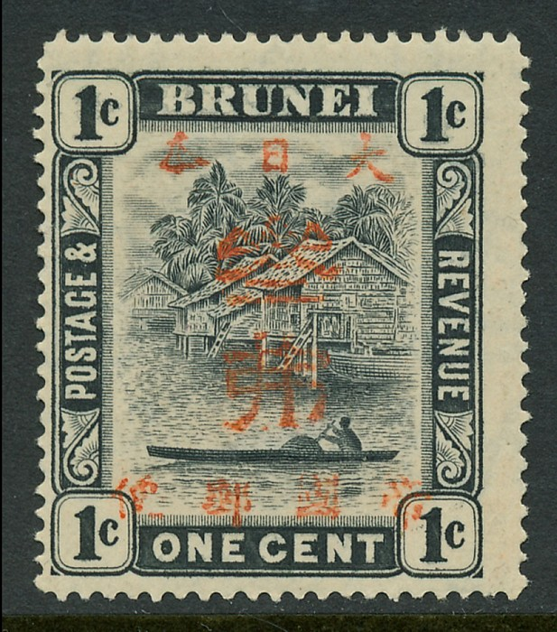 Stamp of Brunei overprinted for Japan occupation, 1944, $3 on 1c.